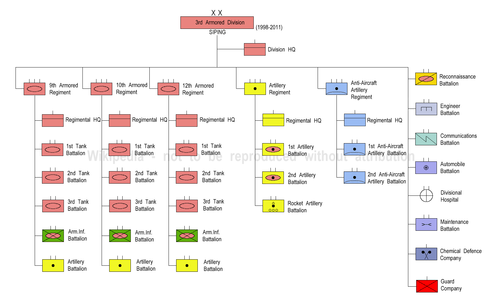 3rd Armored Division, Organization 1998-2011, as an Armored Division of 5 Regiments.